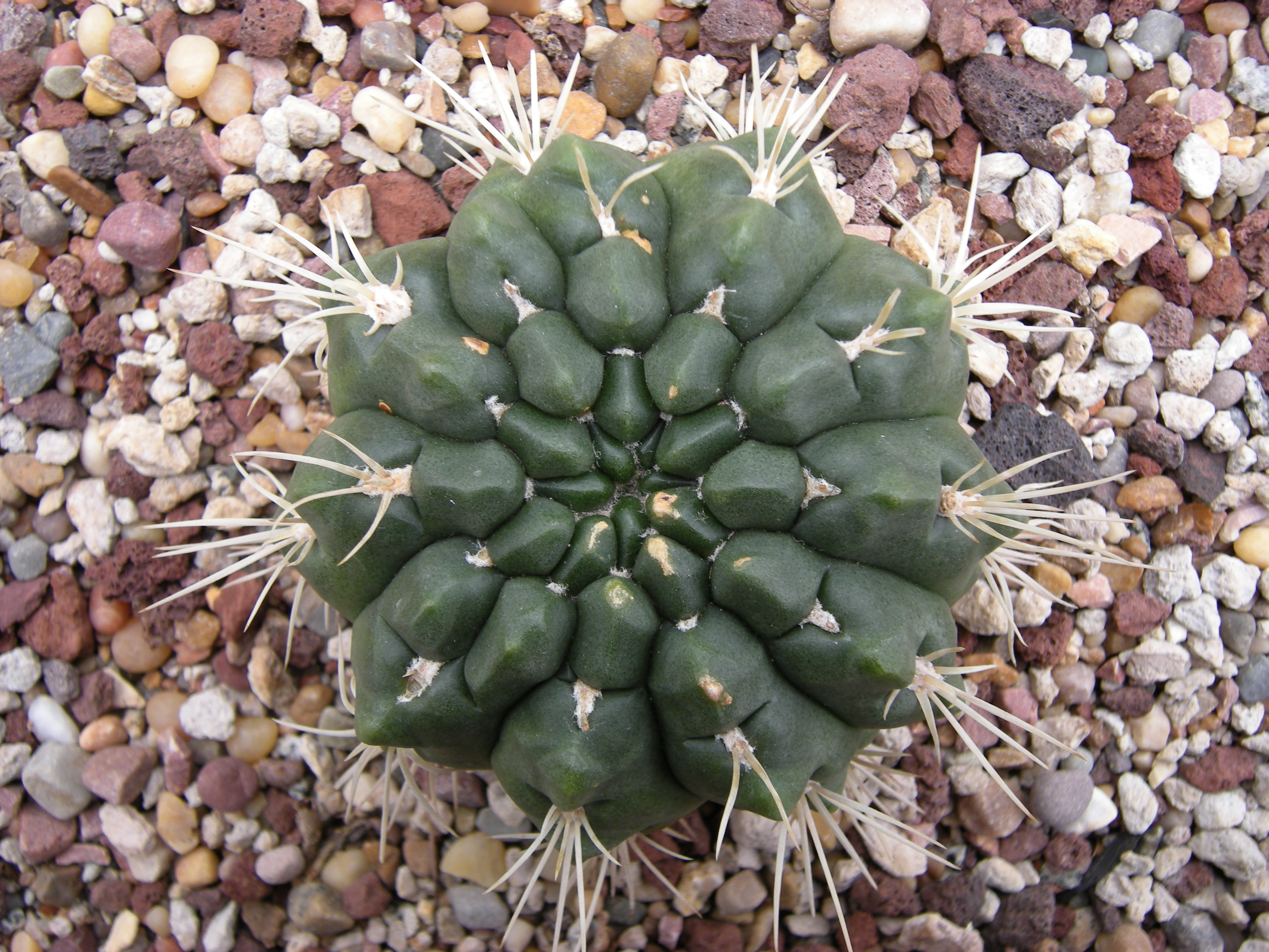 Gymnocalycium monvillei. Argentina. C-3307. Photographed at Volunteer Park Conservatory, Seattle, Washington.